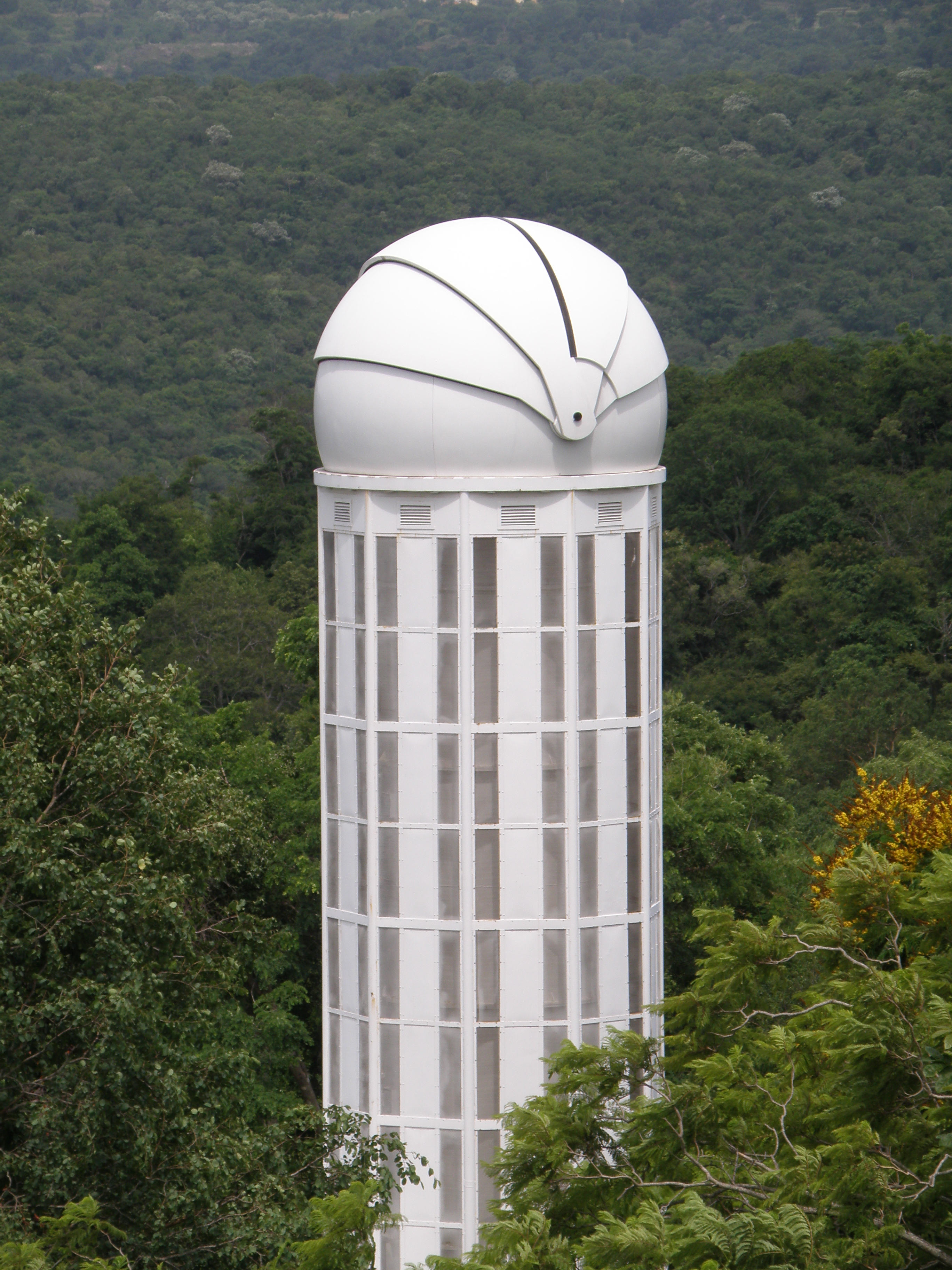 15-inch telescope seen from the 40-inch telescope at Vainu Bappu Observatory.